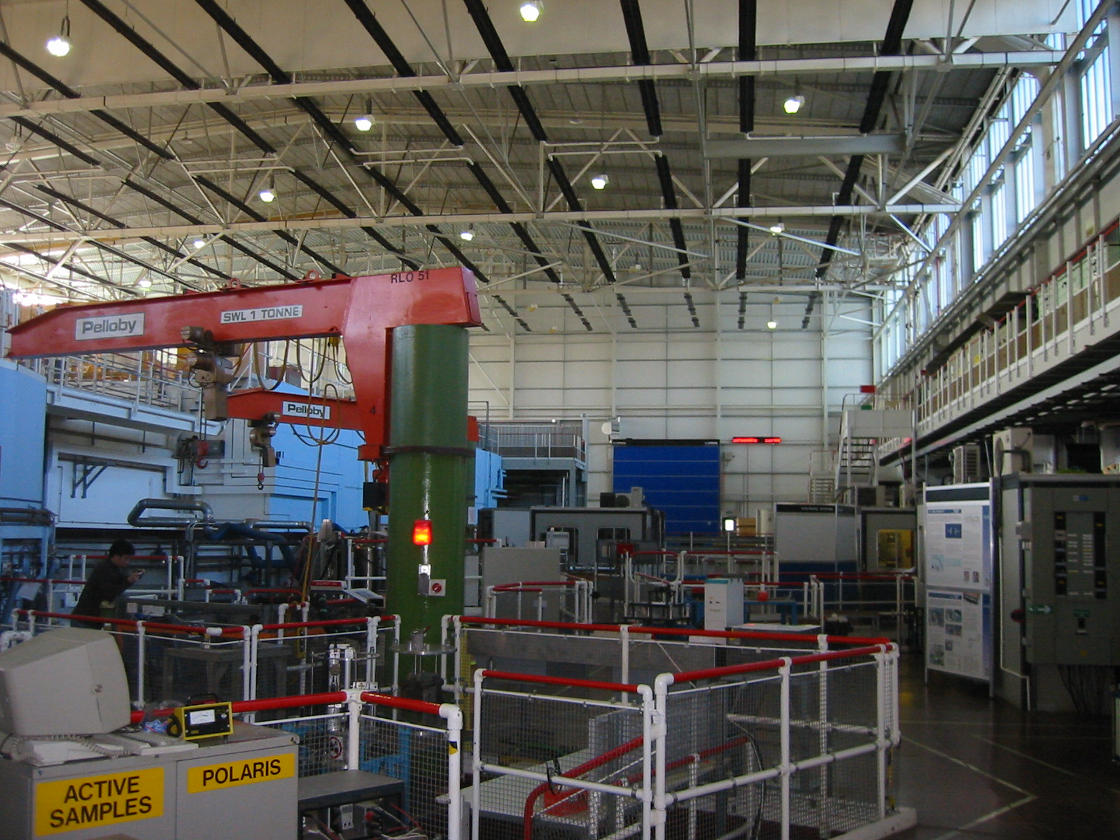 The experimental hall at the ISIS neutron source at the Rutherford Appleton Laboratory in Oxfordshire, UK. The neutron-producing target station is to the left inside the blue shielding. The cranes lift equipment into and out of the beamlines. At the far end of the hall, an electronic display shows the current beam status.